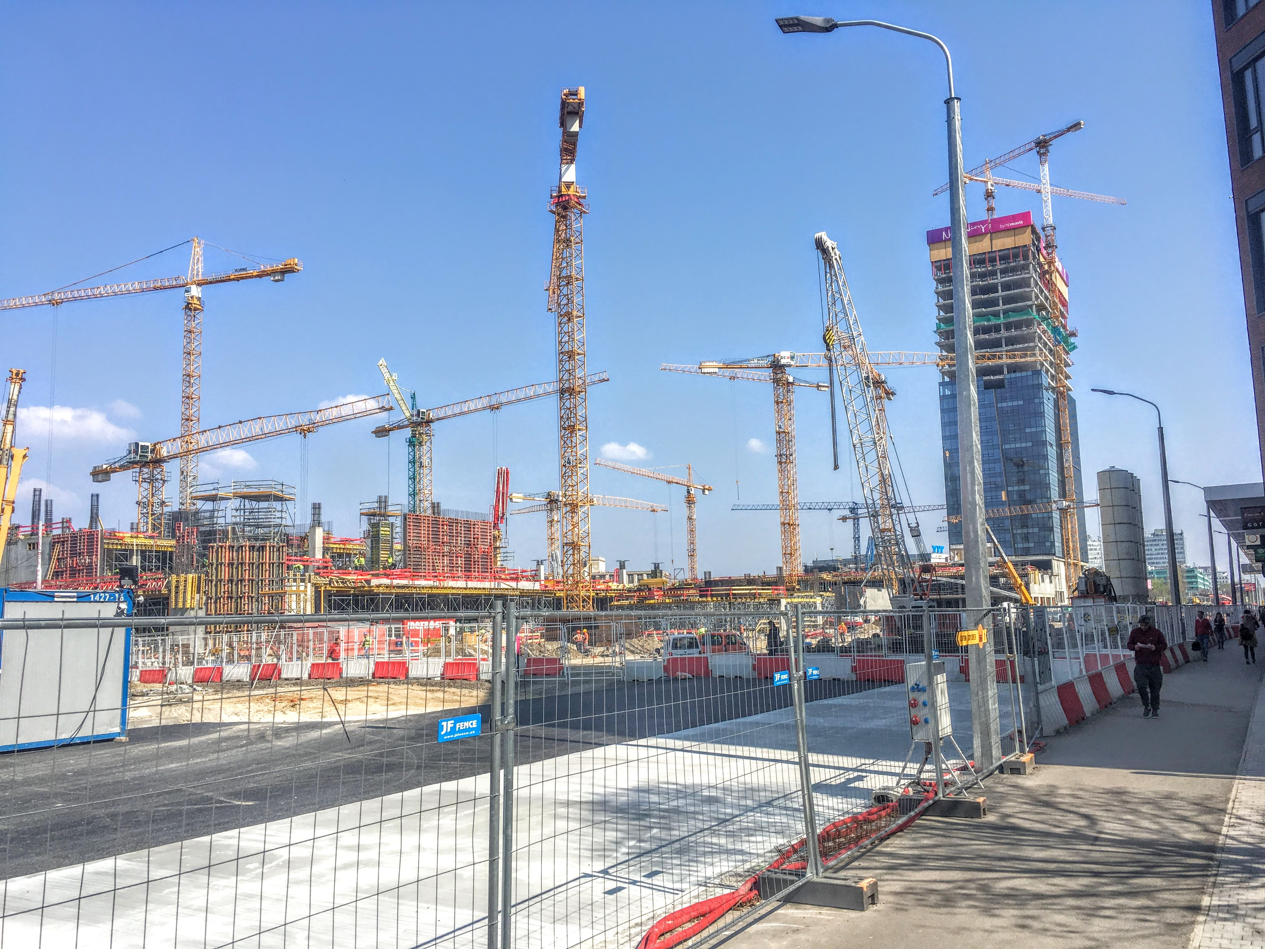 Construction of the Mlynské Nivy new central bus station underway